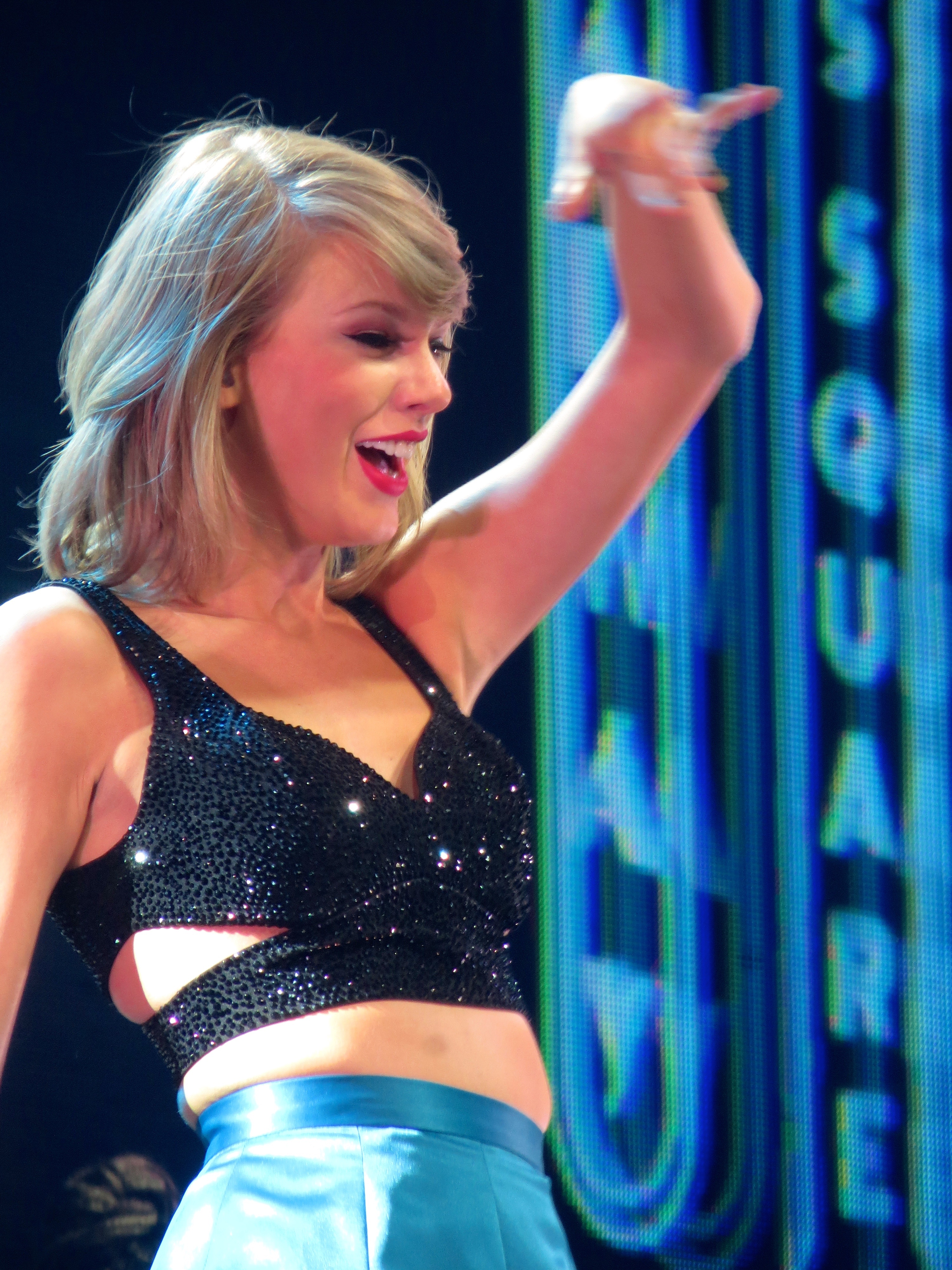 Taylor Swift 4